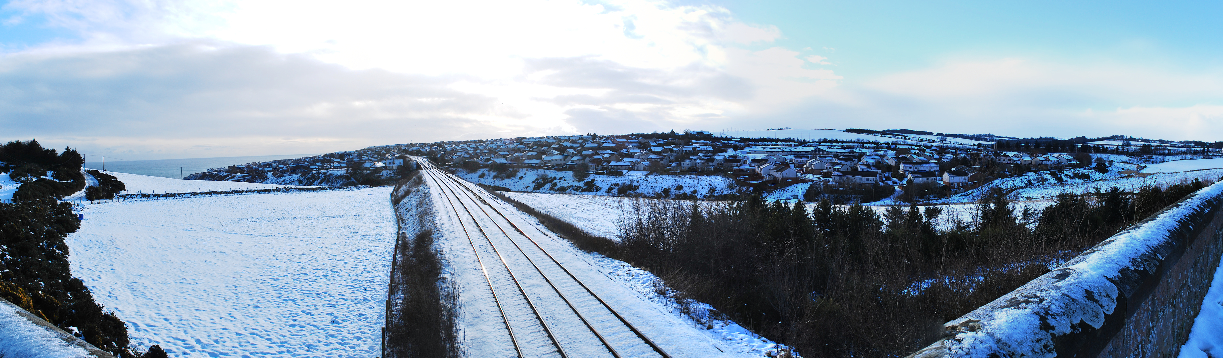 Panorama of Newtonhill village taken from the road bridge over the railway on the north side of the village.